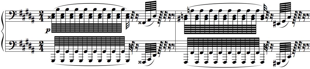 50 ans, the fourth and last movement from Grande sonate 'Les quatre âges', composed by Charles-Valentin Alkan